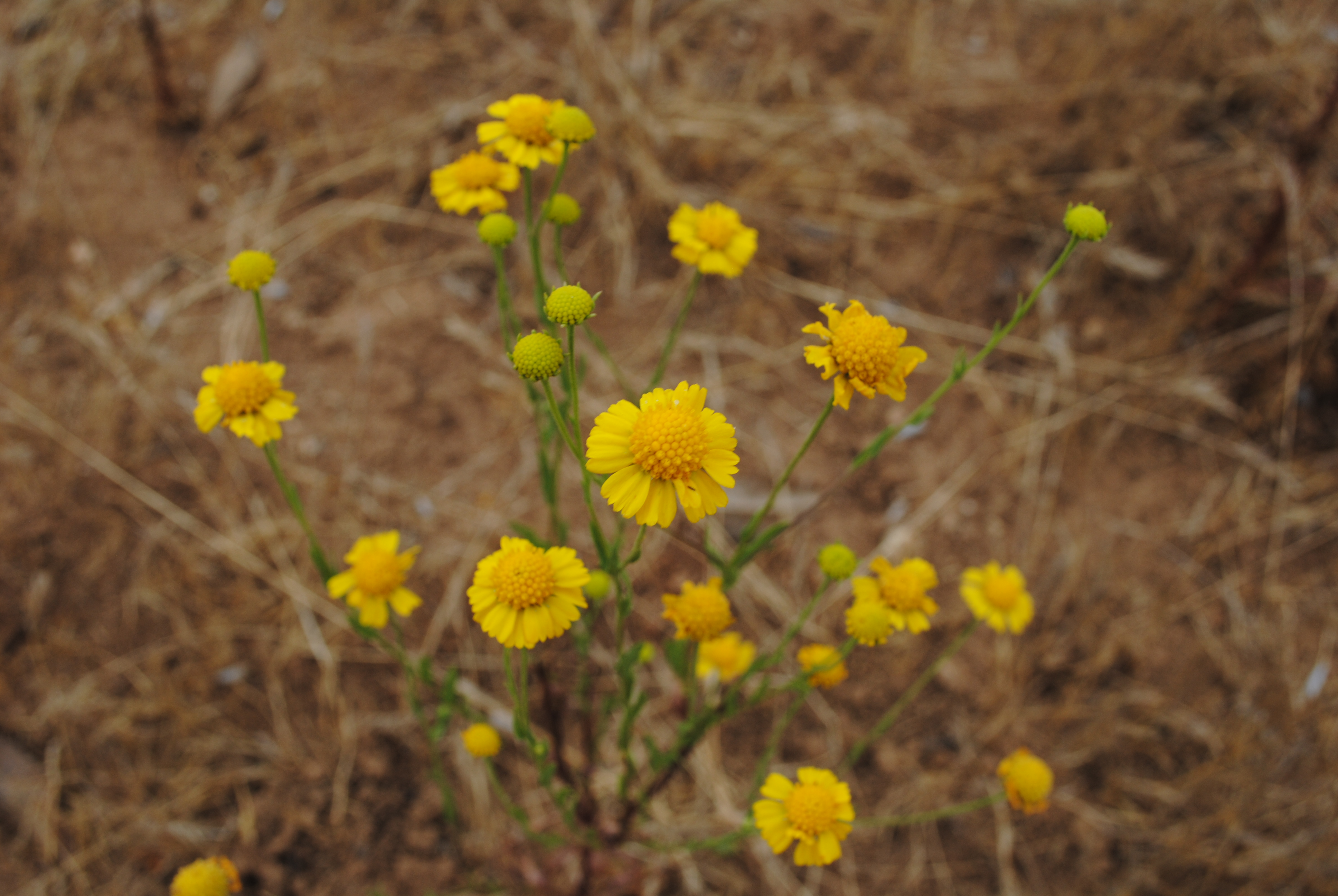 Helenium urmenetae isan annual Asteraceae. Its endemic for Chile Place: Region de Coquimbo; Valle de Elqui; Quebrada de Talca; Los Rulos